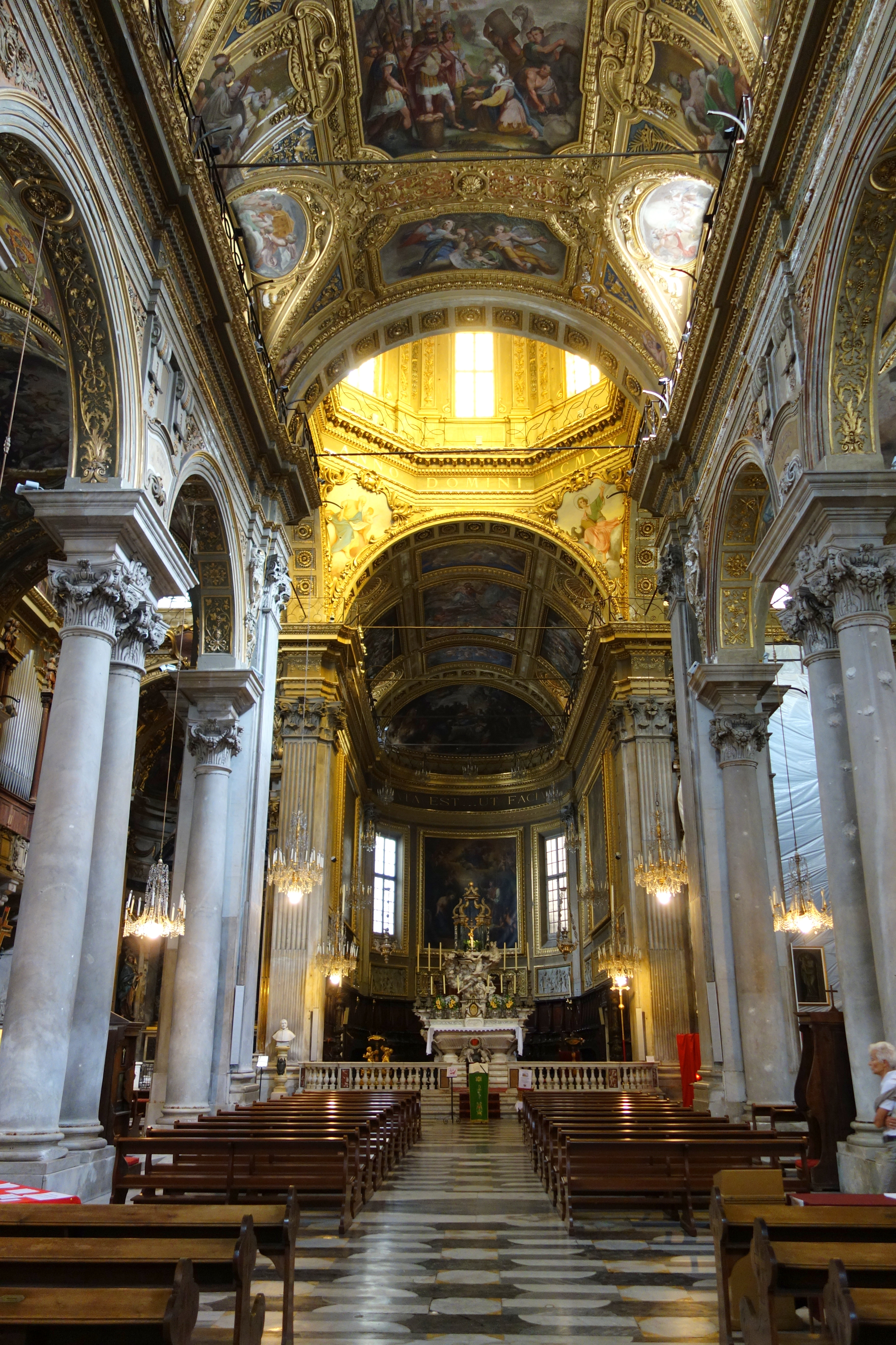 Interior view, Santa Maria delle Vigne (Genoa, Italy).